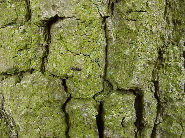 Species: Quercus robur Family: ' Image No. 1